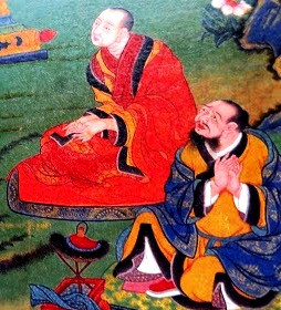 Depa Sonam Rapten (1595-1658) and Gushri Khan (1582-1655) attending a teaching most probably given by the Fifth Dalai Lama (1617-1682). Sonam Rapten is seen offering a hand mandala. Gushri Khan has removed his hat out of respect for his teacher. This is taken from a blog where Sonam Rapten is mistaken for Sangye Gyatso, one of his successors as Desi who was only born 2 years prior to Gushri's death. Said to be a detail from a mural at the Potala Palace in Lhasa, Tibet.